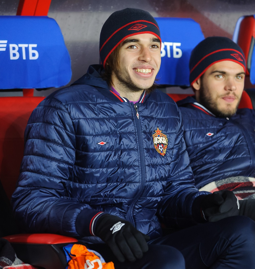 Georgi Kyrnats on the bench for PFC CSKA Moscow during a game against FC Dynamo Moscow.